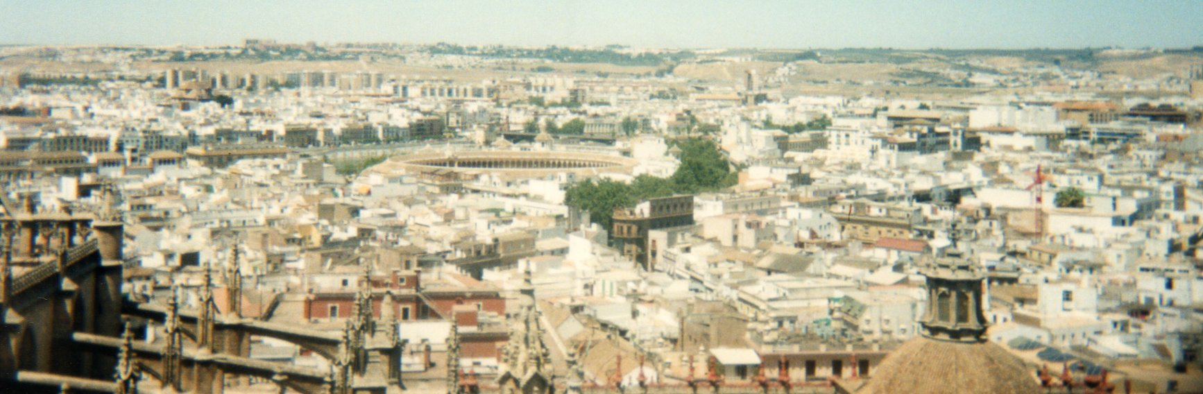 Panorama of Seville from Giralda Tower